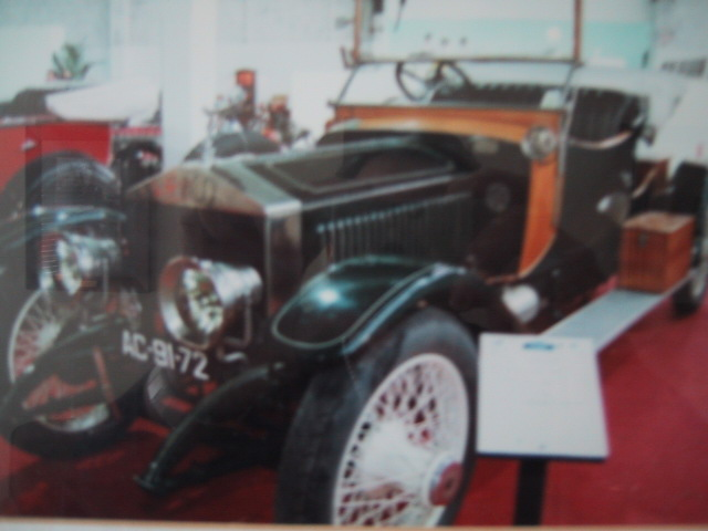 AHBVPA-MeioHistorico8